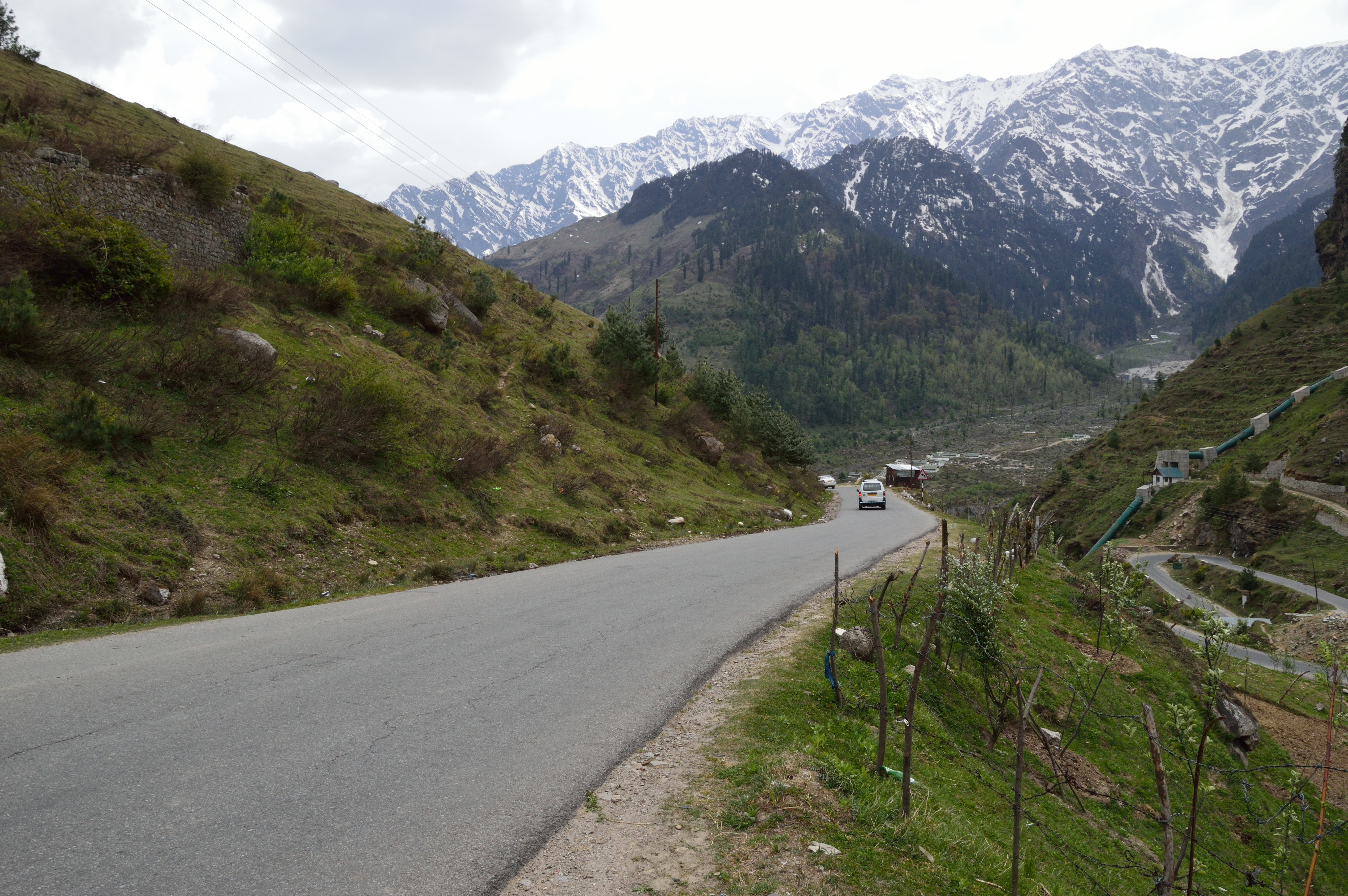 Photographed in Kullu district, Himachal Pradesh.